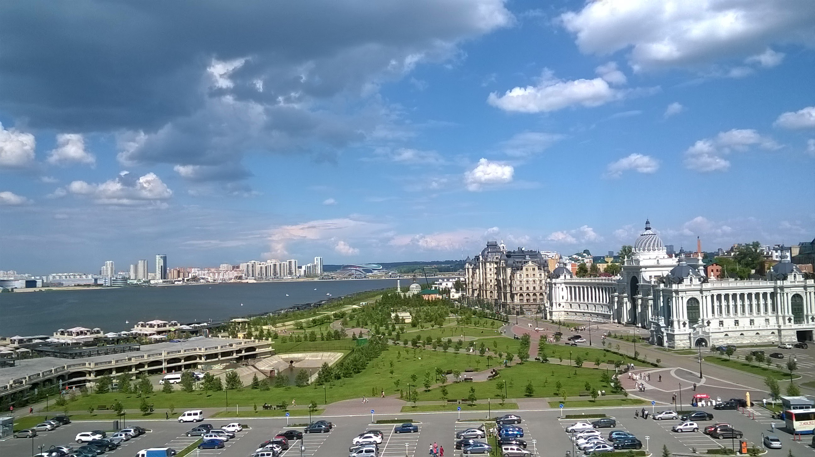 Kazan, Russia. Panorama of Baturin street and Kazanka river.